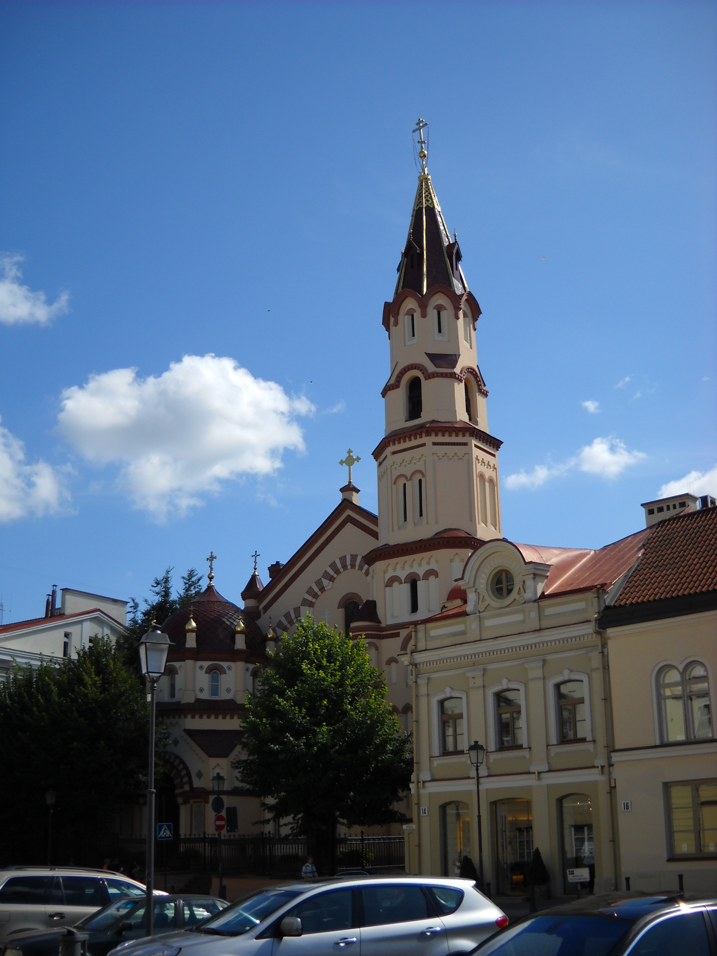 St. Nicolas Orthodox church in Vilnius